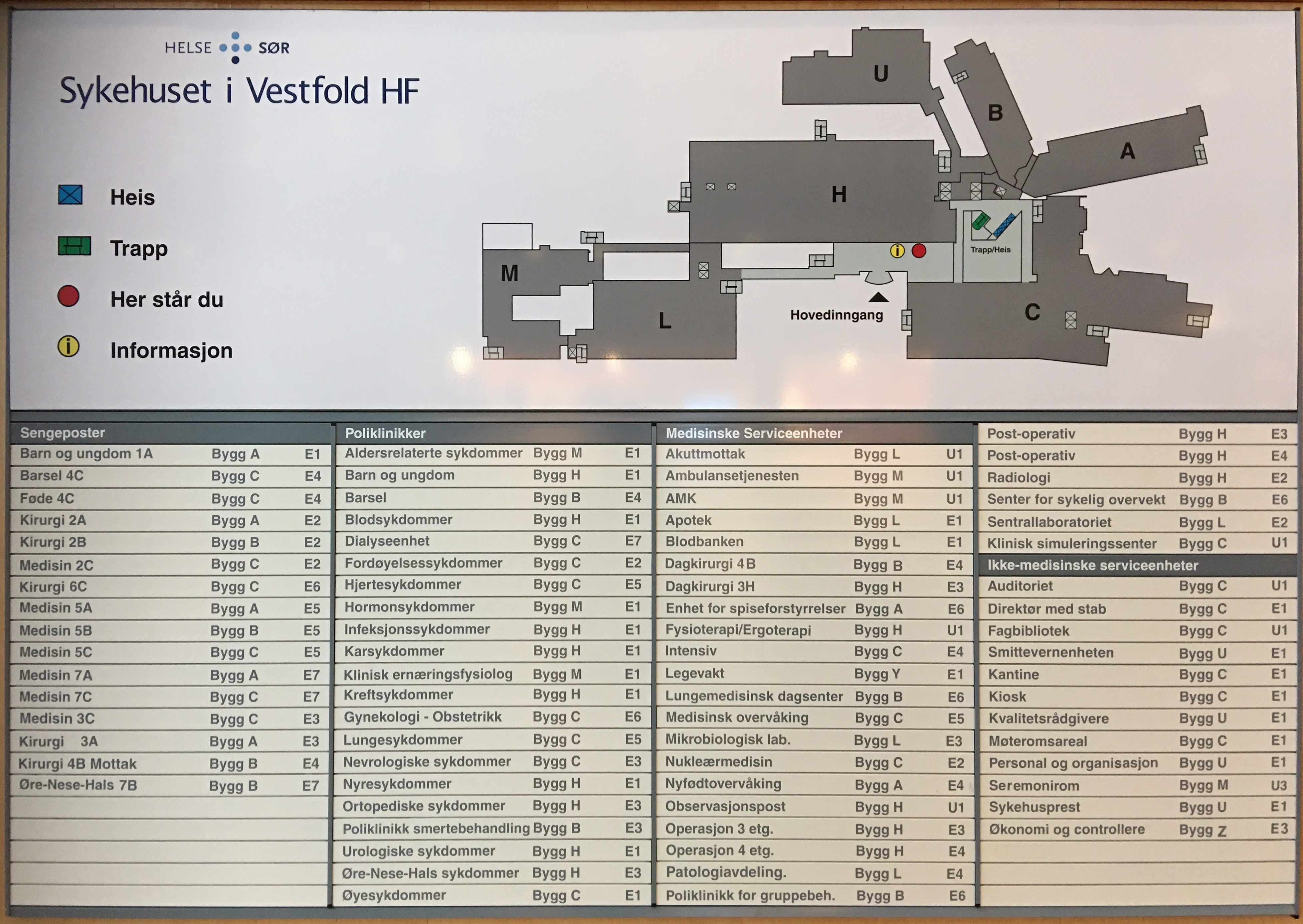 Information board with plan over departements and buildings at Sykehuset i Vestfold HF, hospital in Tønsberg, Norway (28th December, 2016)